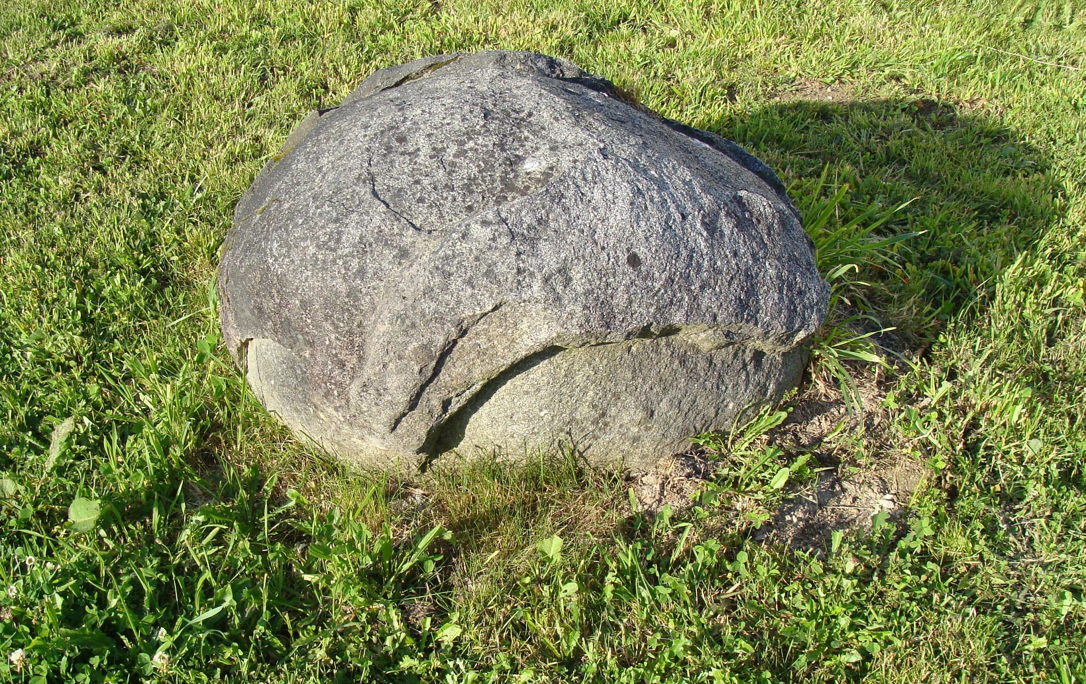 Exfoliation of granite